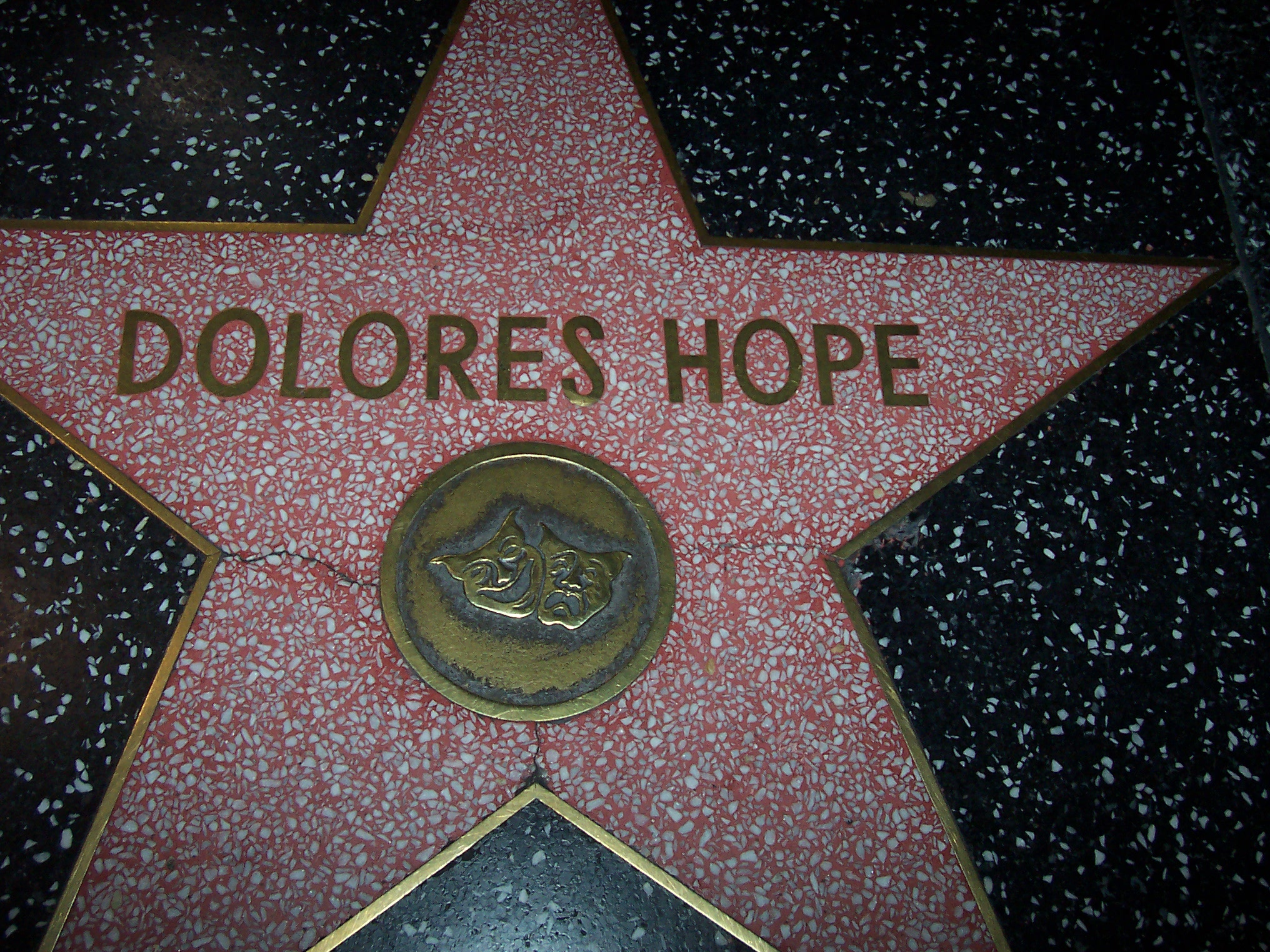 Dolores Hope on the Walk of Fame, Hollywood.